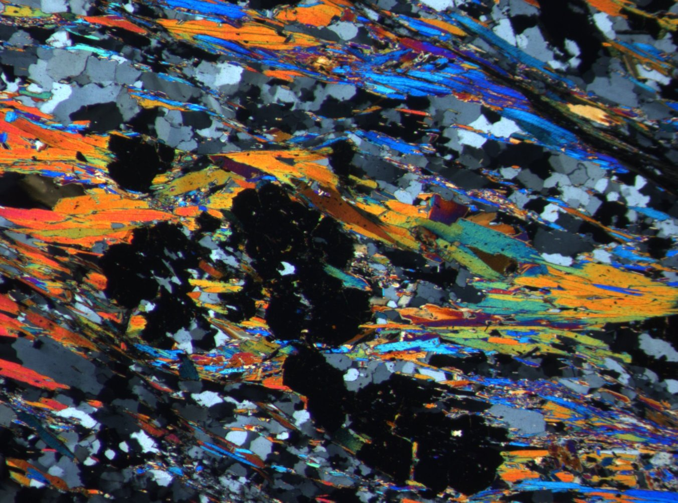 Thin Section of a Garnet-Mica-Shist in crossed polarisated light. Garnet appears completely black, Biotite in glowing orange interference colors, Muskovite in blue interference colors and Quartz minerals in various grey tones.